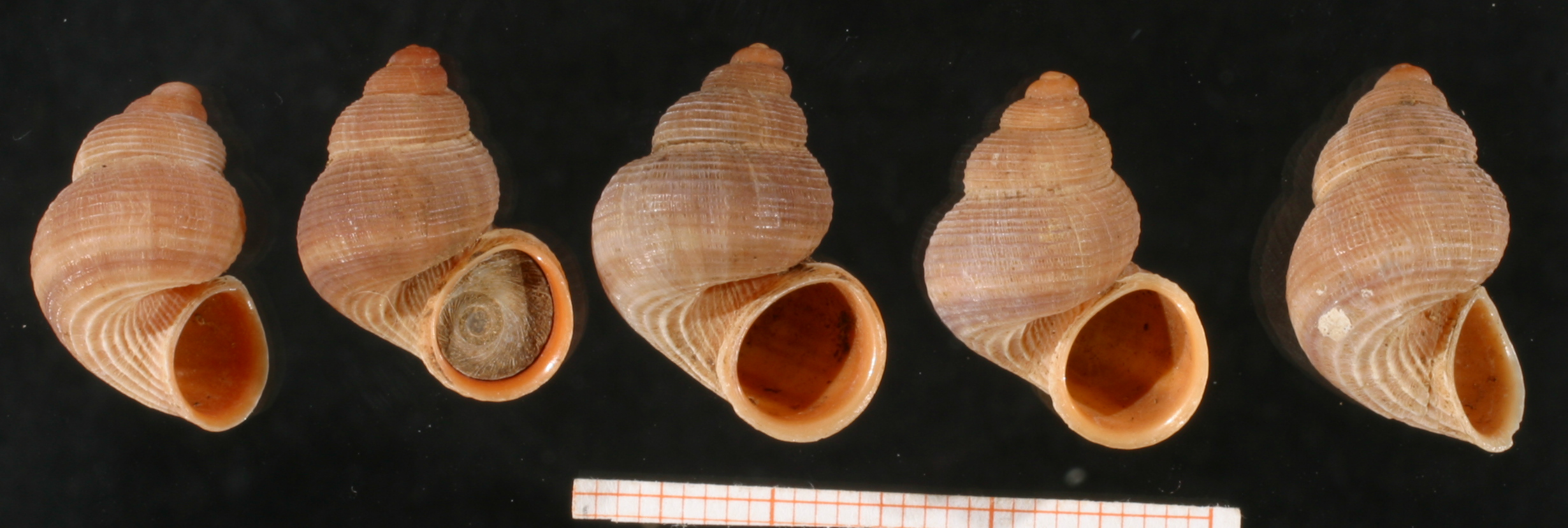 Tudorella multisulcata (Potiez & Michaud, 1838), Pomatiidae, Littorinoidea, Sorbeoconcha, Gastropoda, Agrigento, Sicily, Italy